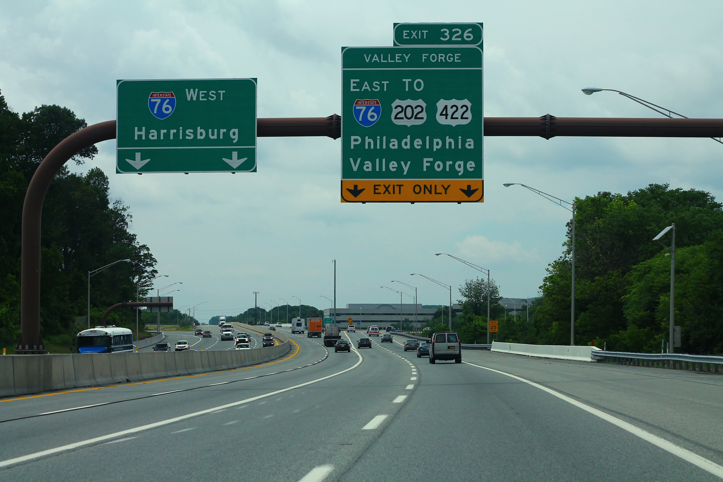 I-276 West End - Exit 326 for I-76 East